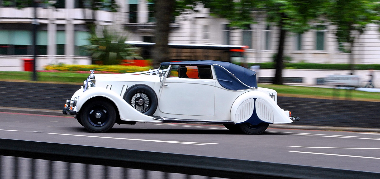 Rolls-Royce Phantom III, pictured in London